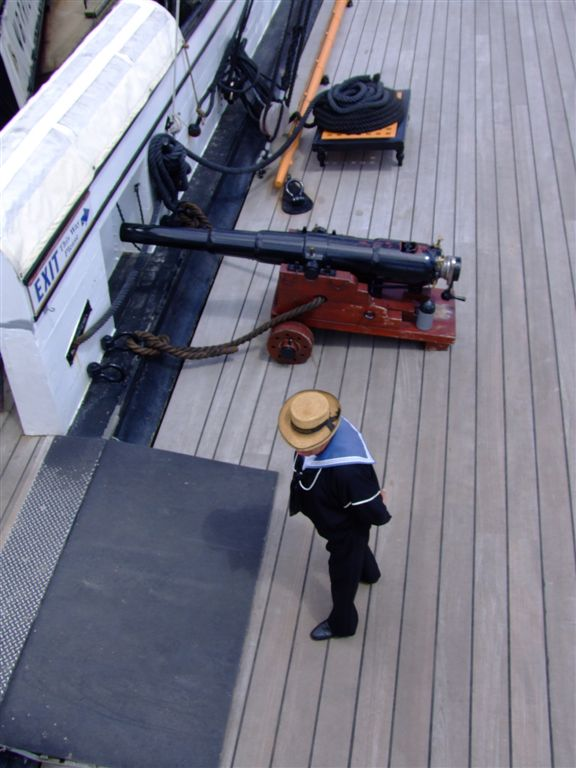 Photograph from above of RBL 20 pounder 16 cwt Armstrong gun on the deck of HMS Warrior. This model gun was normally used ashore as a field gun.